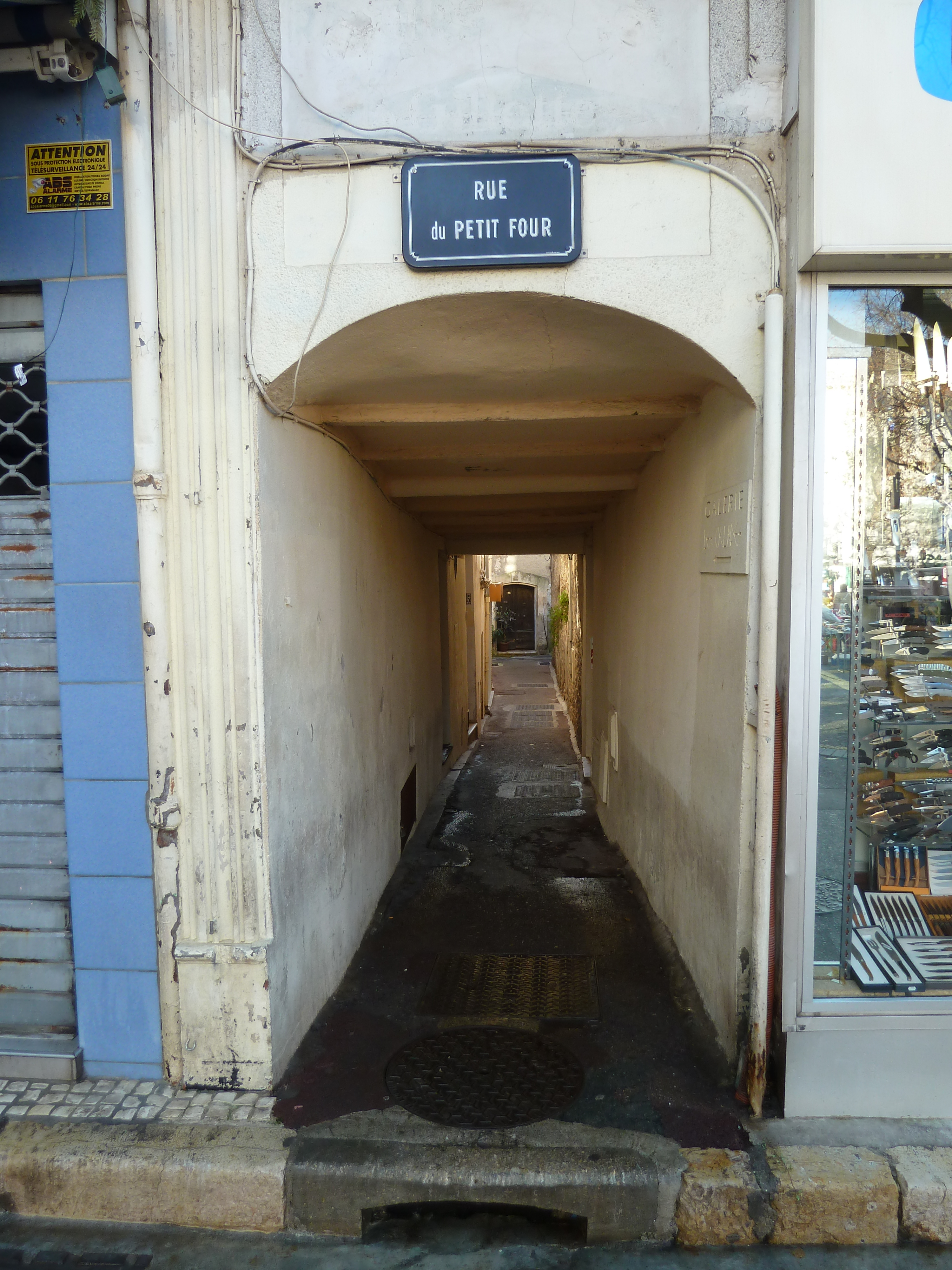 Antibes Rue du Petit Four